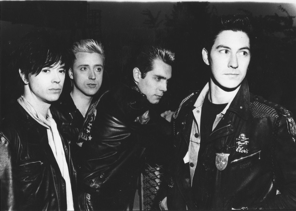 1986 photo of the band Twenty Flight Rockers taken by Jane Simon for promotional purposes, released in public domain.